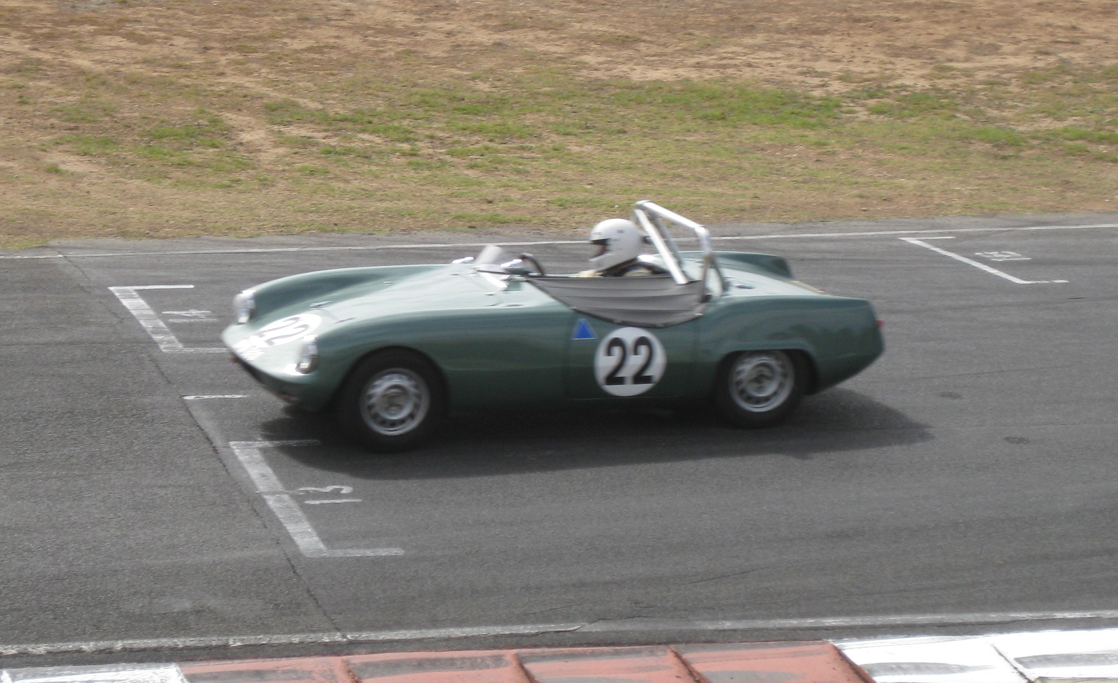 The 1960 Elva Courier of Ian McDonald at the Mallala Motor Sport Park on 3 April 2010.